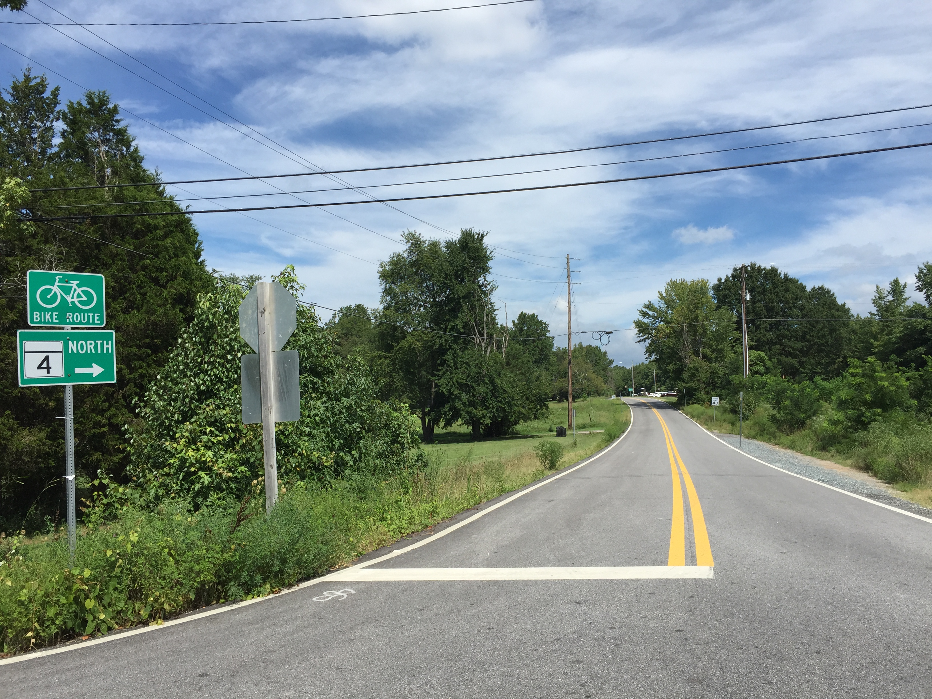 View north along Maryland State Route 980 (Southern Maryland Boulevard Service Road) at Lower Pindell Road in Lyons Creek, Anne Arundel County, Maryland